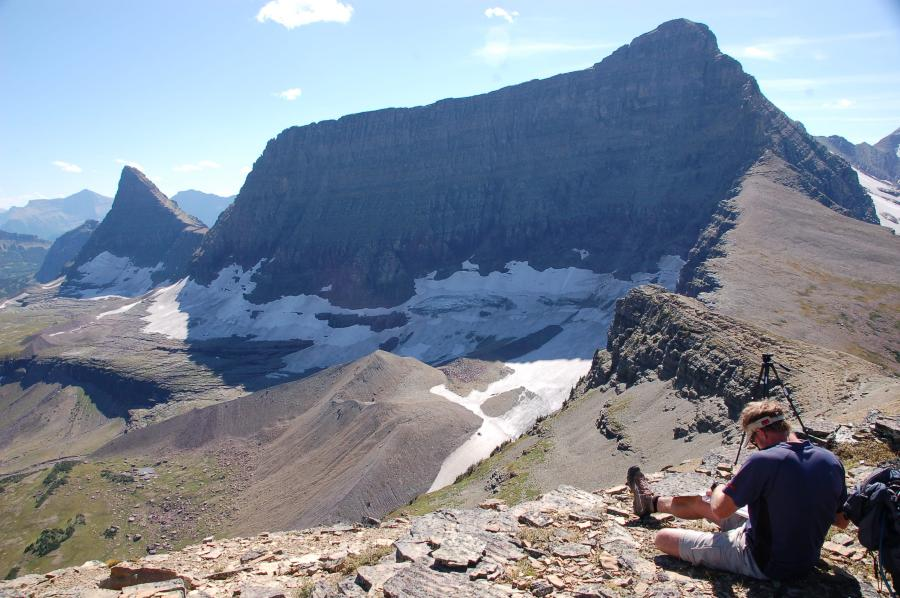 Logan Glacier at right and Red Eagle Glacier at far left with Mount Logan at upper right as photographed by USGS scientists in Septemeber 2009